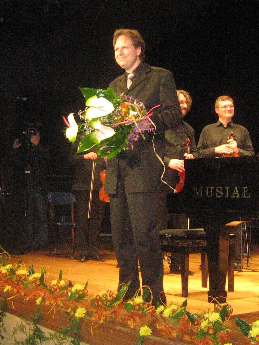 Kevin Kenne